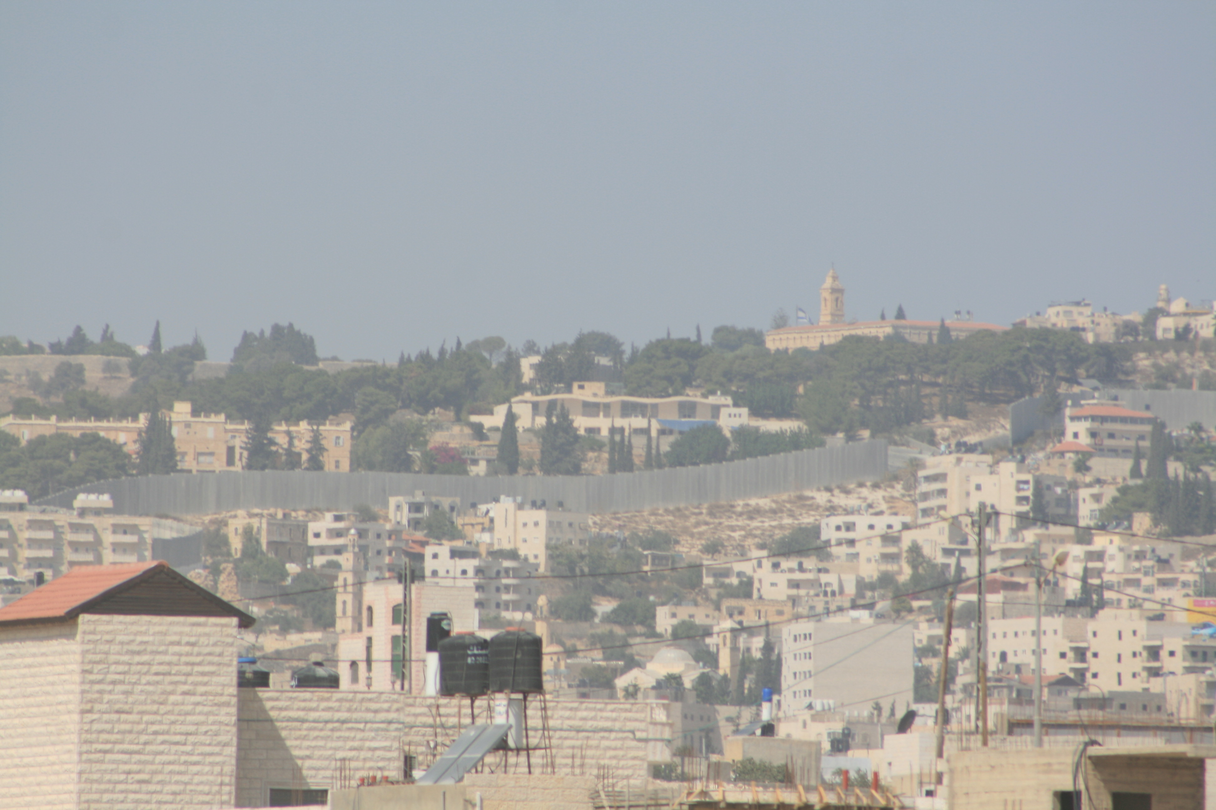 Israeli West Bank barrier in Jerusalem